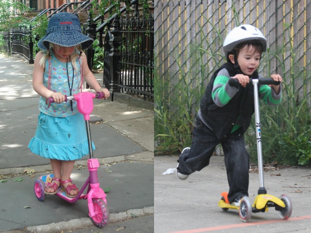 Children riding two kinds of three-wheeled scooters.